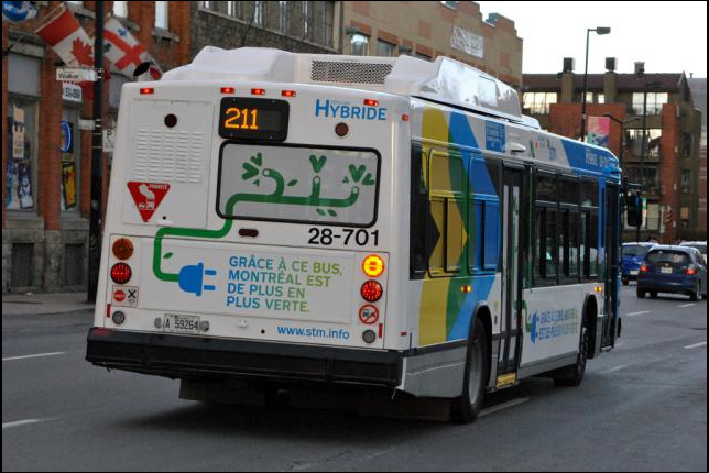 A Hybrid bus in Montreal